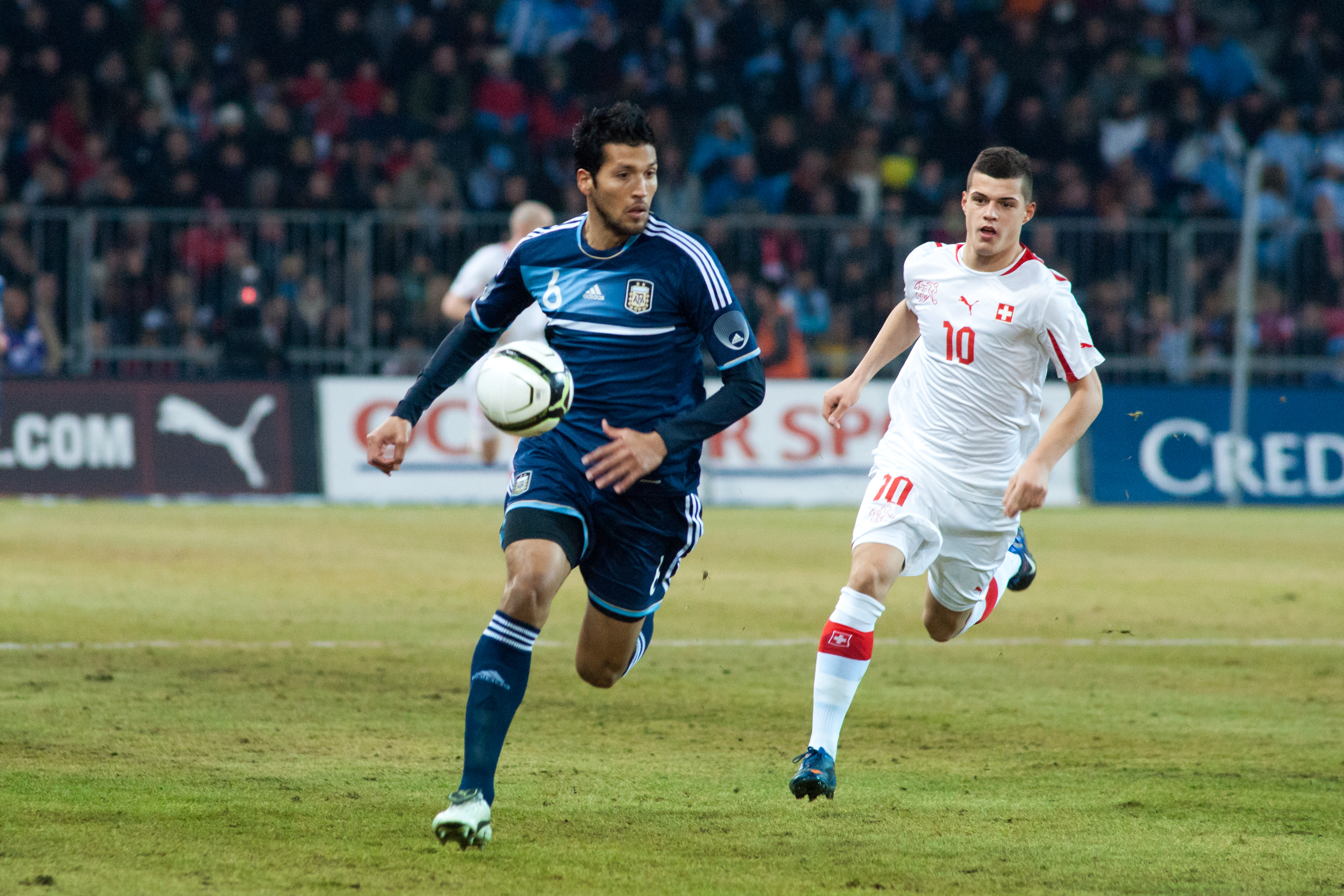 The making of this document was supported by Wikimedia CH. (Submit your project!) For all the files concerned, please see the category Supported by Wikimedia CH. Switzerland vs. Argentina, 29th February 2012